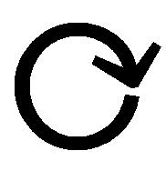 Clockwise rotation